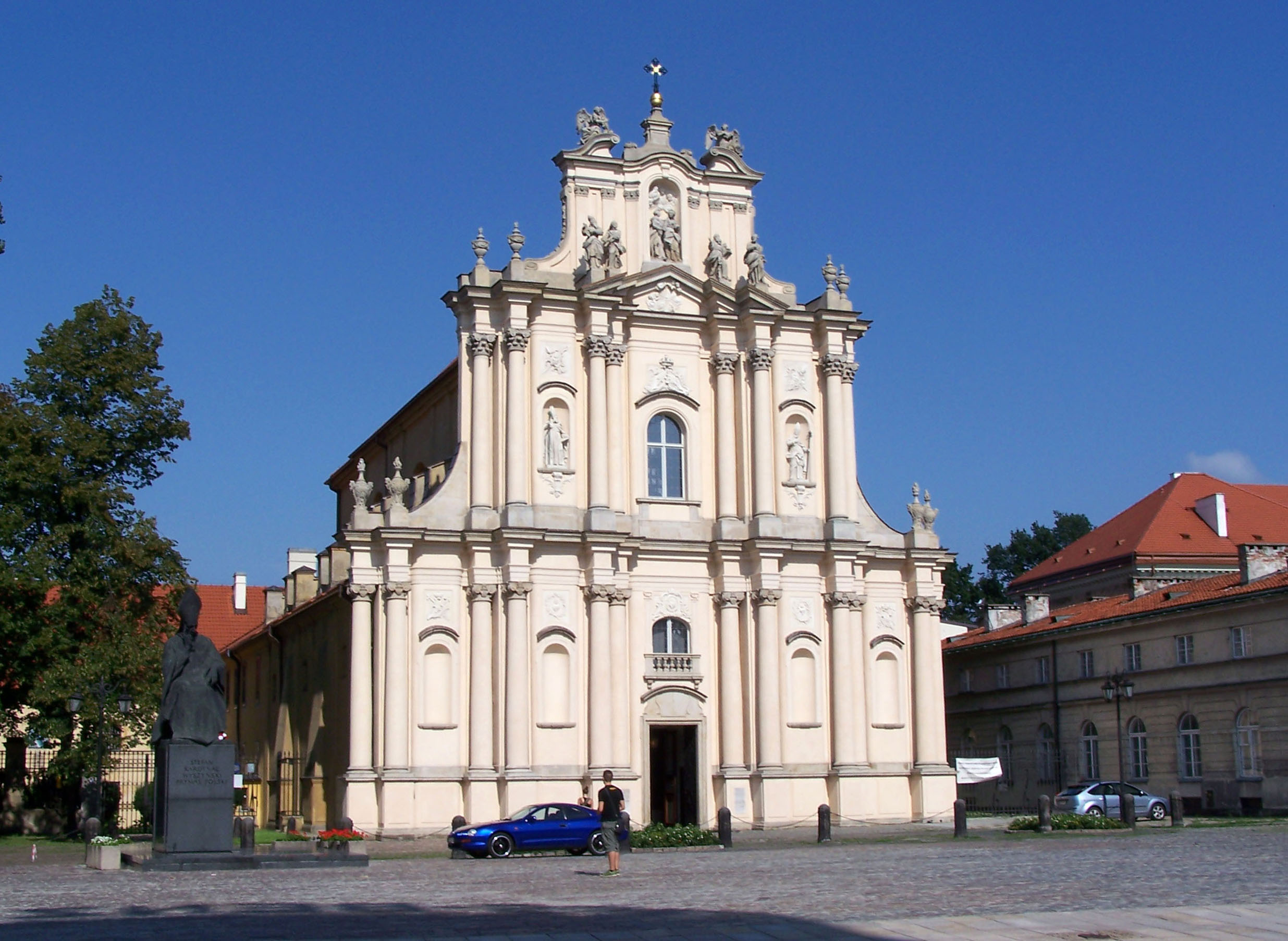 Visitationist Church in Warsaw, Poland